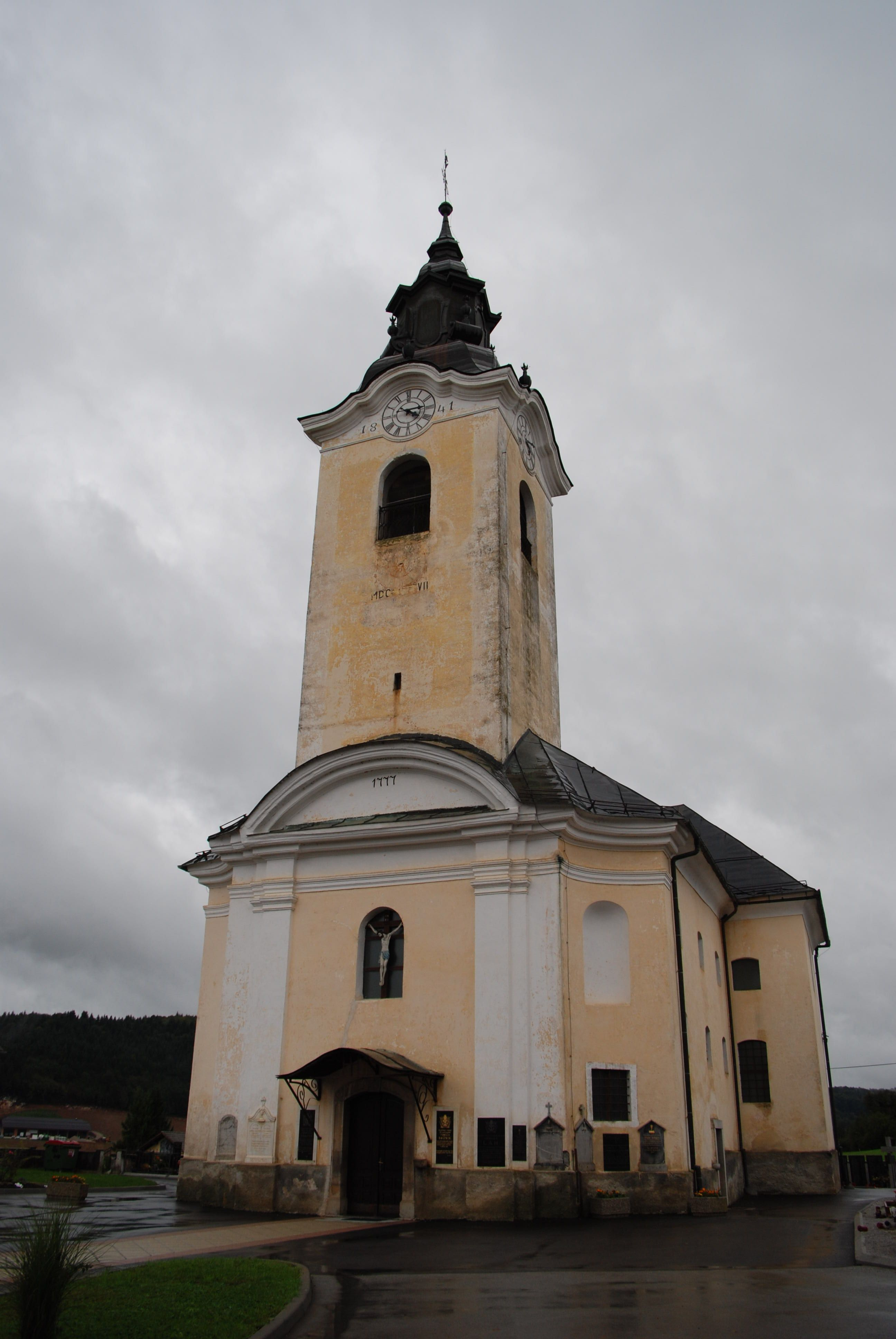 St. George's Parish Church in Dobrnič (Municipality of Trebnje, Slovenia). It was completed in 1777. View from the front right side, in rainy weather. The church stands at a slightly higher are in the centre of the village, in front of a cemetery. Heritage Registry Number 4137.